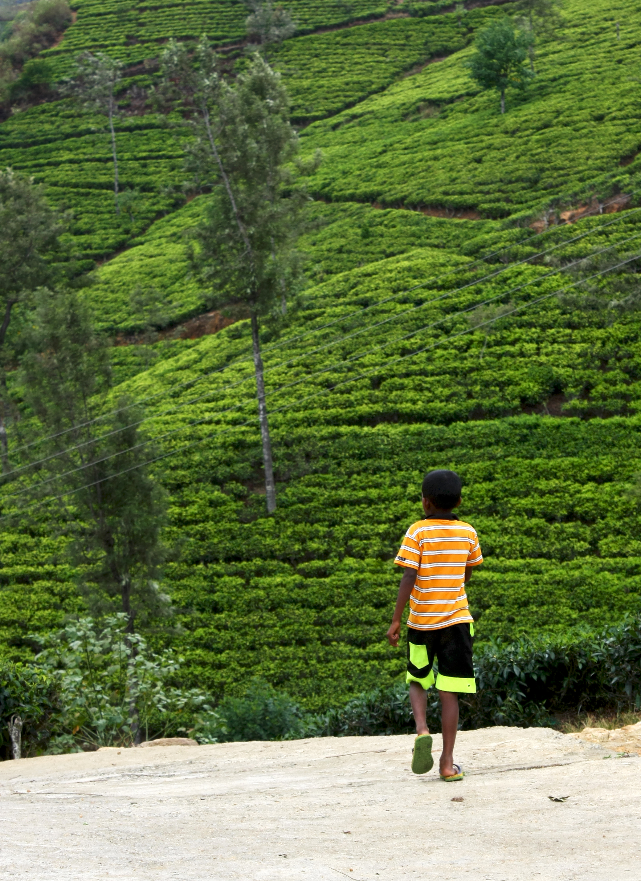 A boy from Indian Tamils of Sri Lanka in Walapane, Nuwara Eliya District. (Image as per rule of thirds)